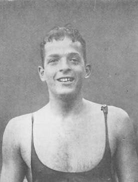 Alberto Zorrilla from Argentina, winner of the 1928 Olympic Games 400 metres free style swimming competition